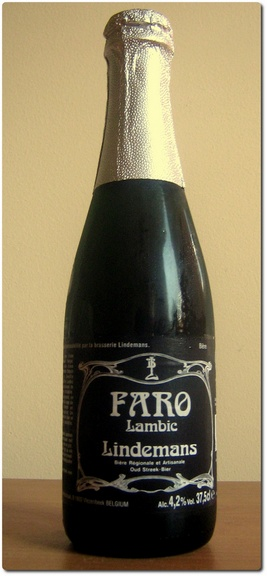 Faro beer